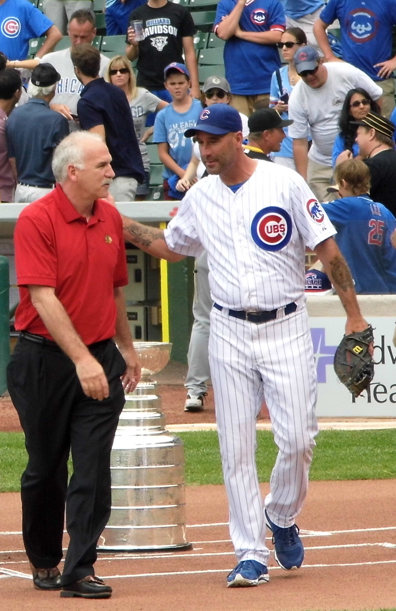 Dale Sveum with Chicago Cubs